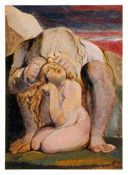 Plate from The Book of Ahania, copy A, in the collection of the Library of Congress.